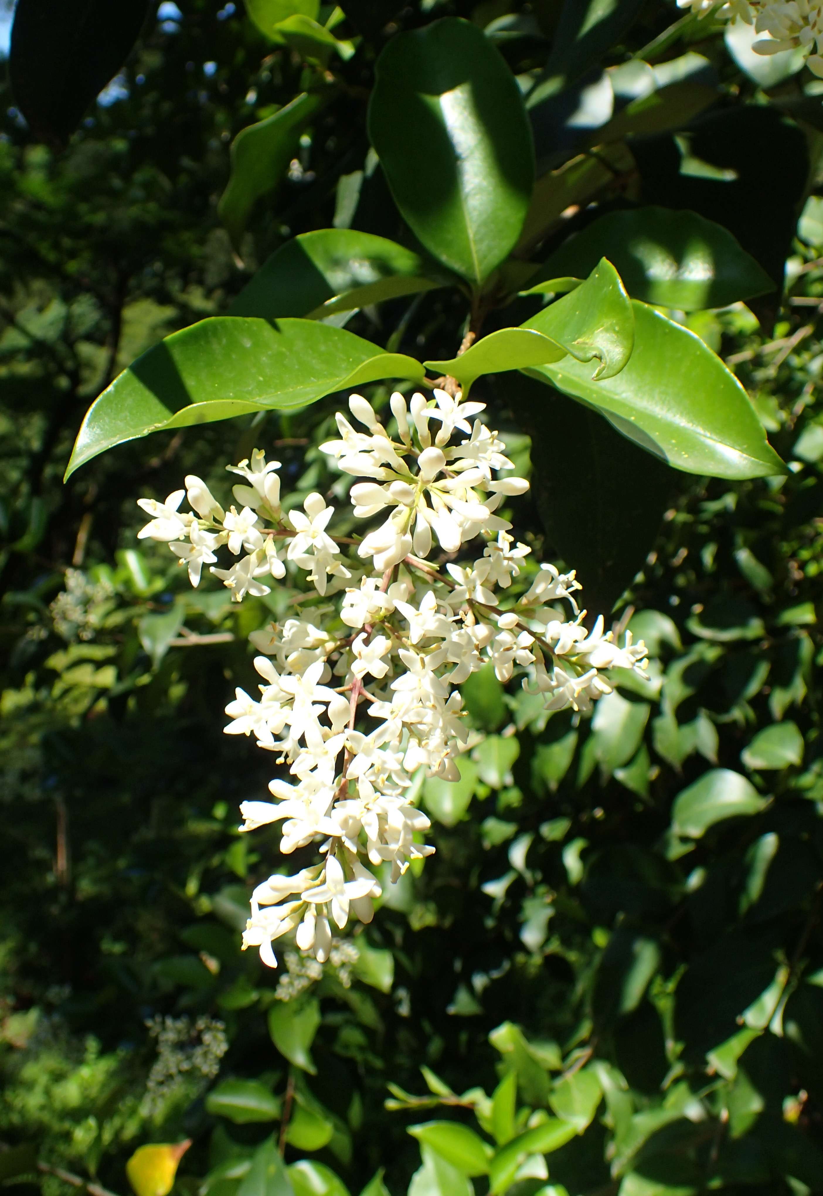 Ligustrum lucidum in botanical garden in Batumi